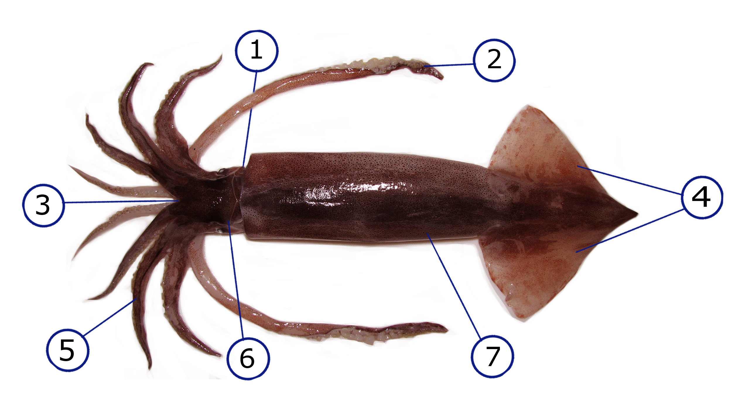 squid's anatomy